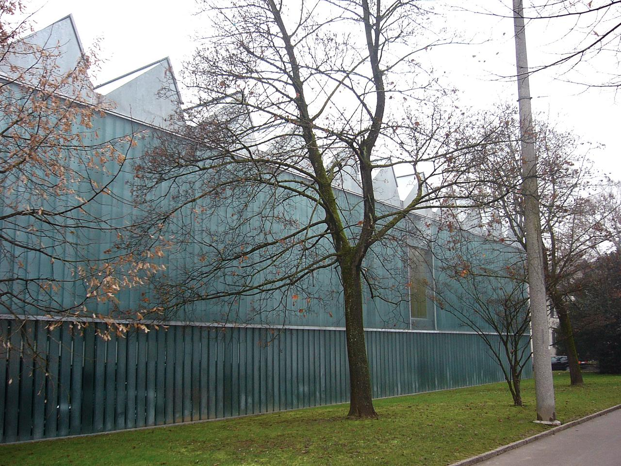 The extension building of the Winterthur Museum of Art, builded by the architects Gigon/Guyer from 1993 to 1995.